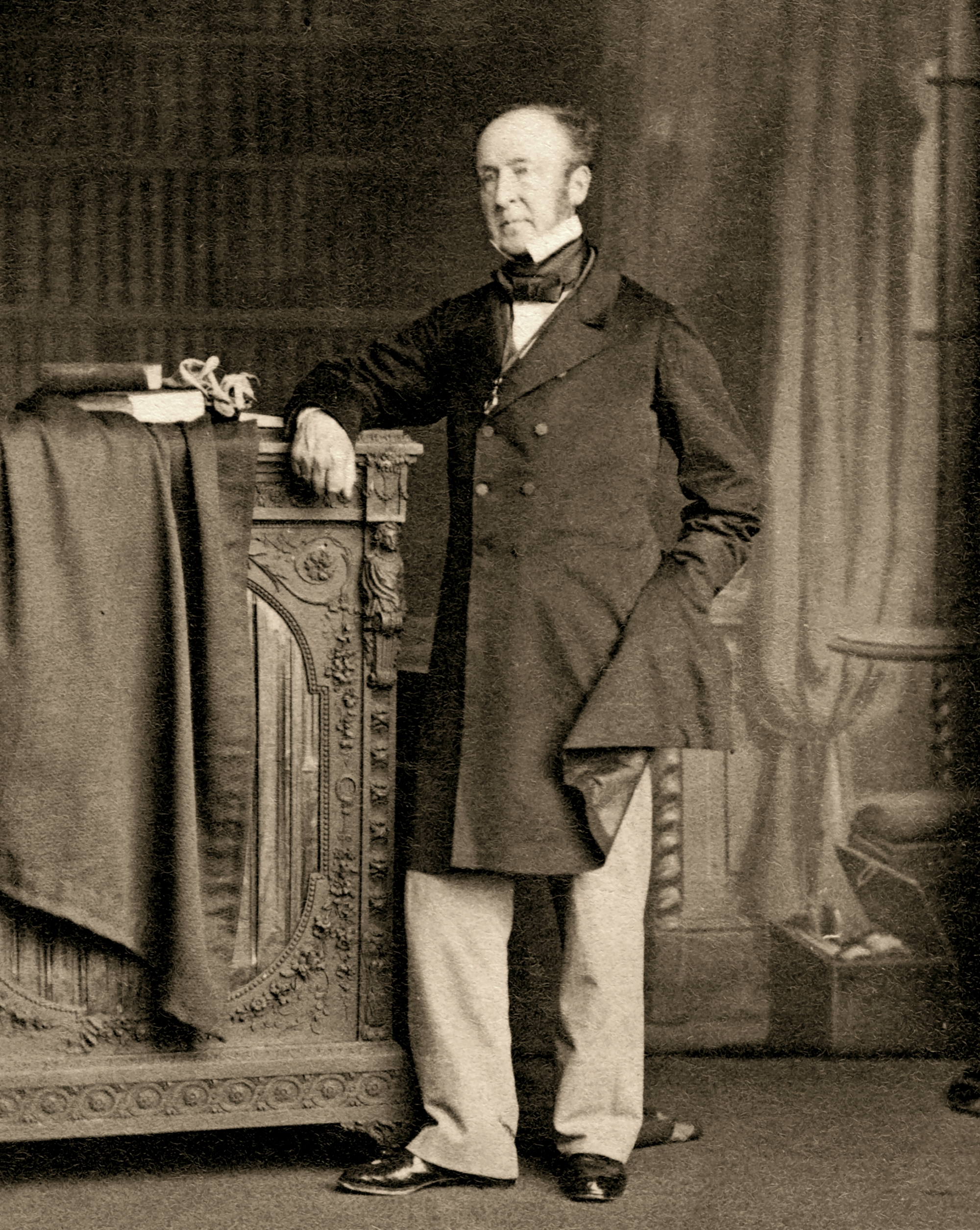 Roderick Impey Murchison. Photo C. Silvy